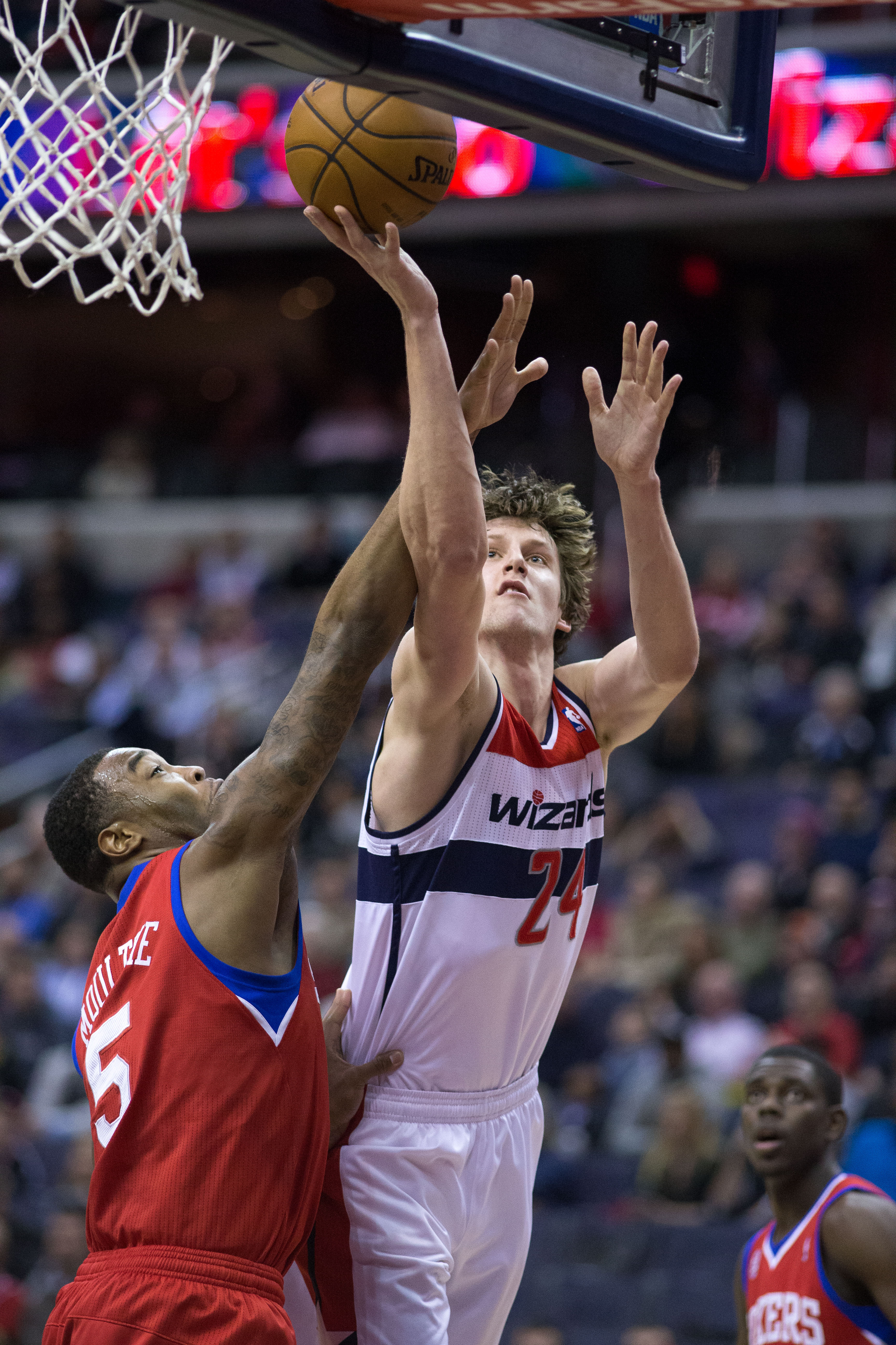 Philadelphia 76ers at Washington Wizards March 3, 2013